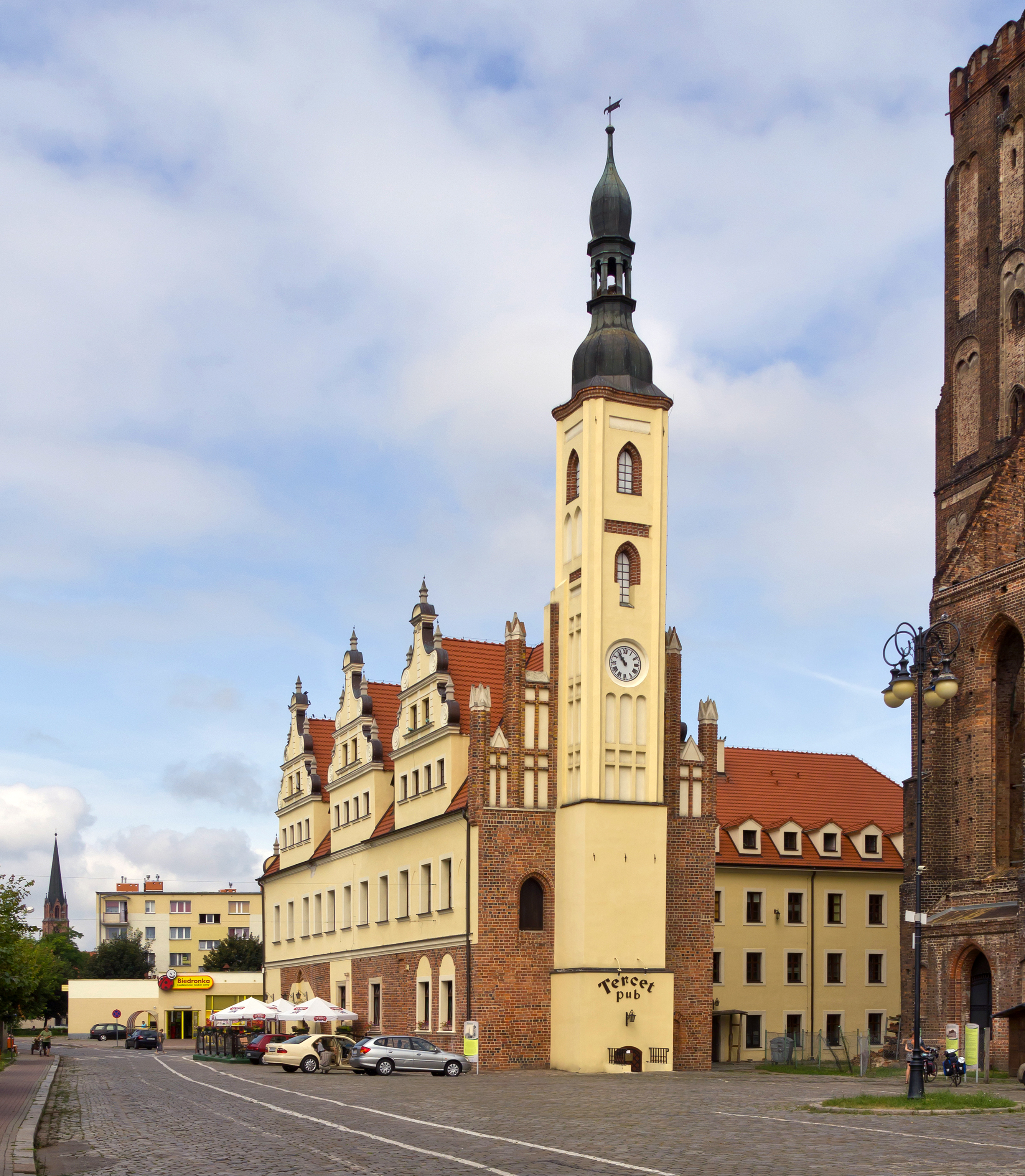 Town Hall in Gubin, Lubusz Voivodeship, Poland